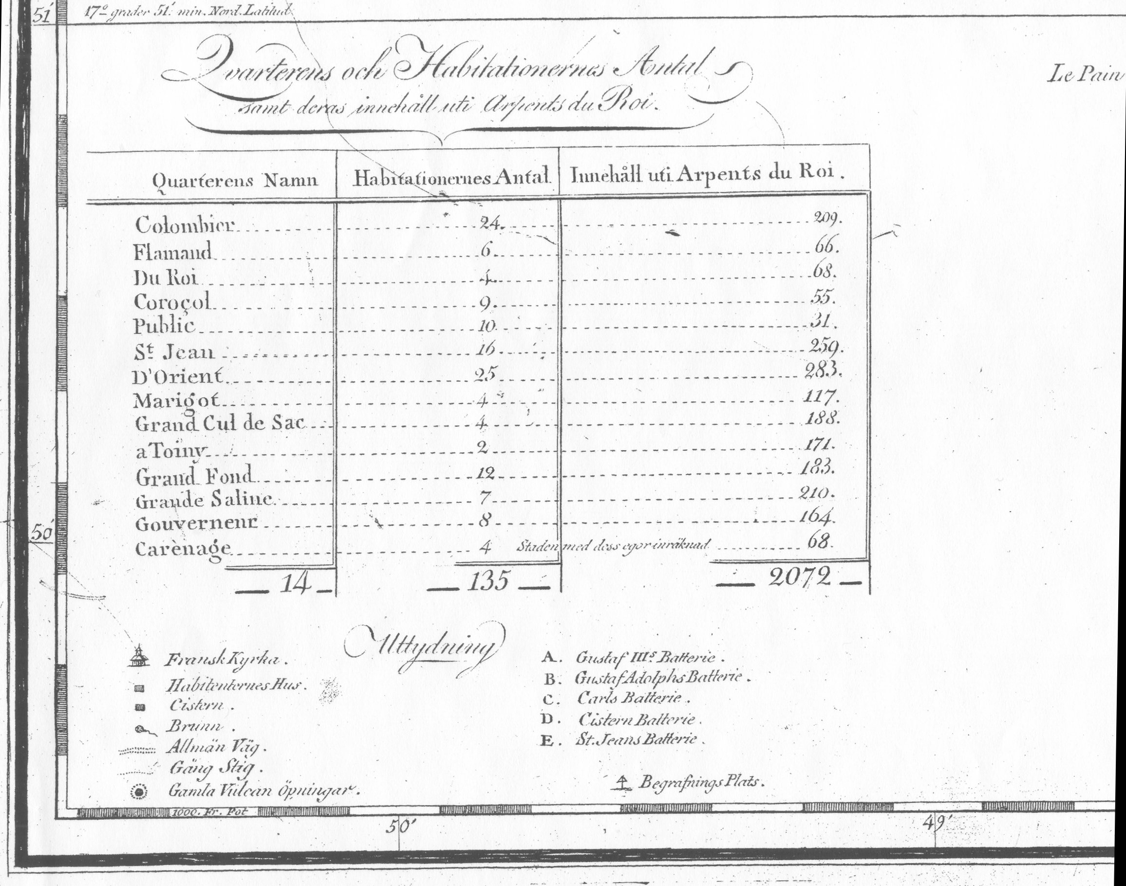 St. Barthélemy (French island in the Caribbean) map of 1801, with quartier boundaries